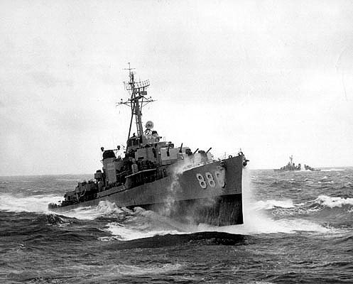 The U.S. Navy Gearing-class destroyer USS Orleck (DD-886) in heavy seas, in the 1950s.